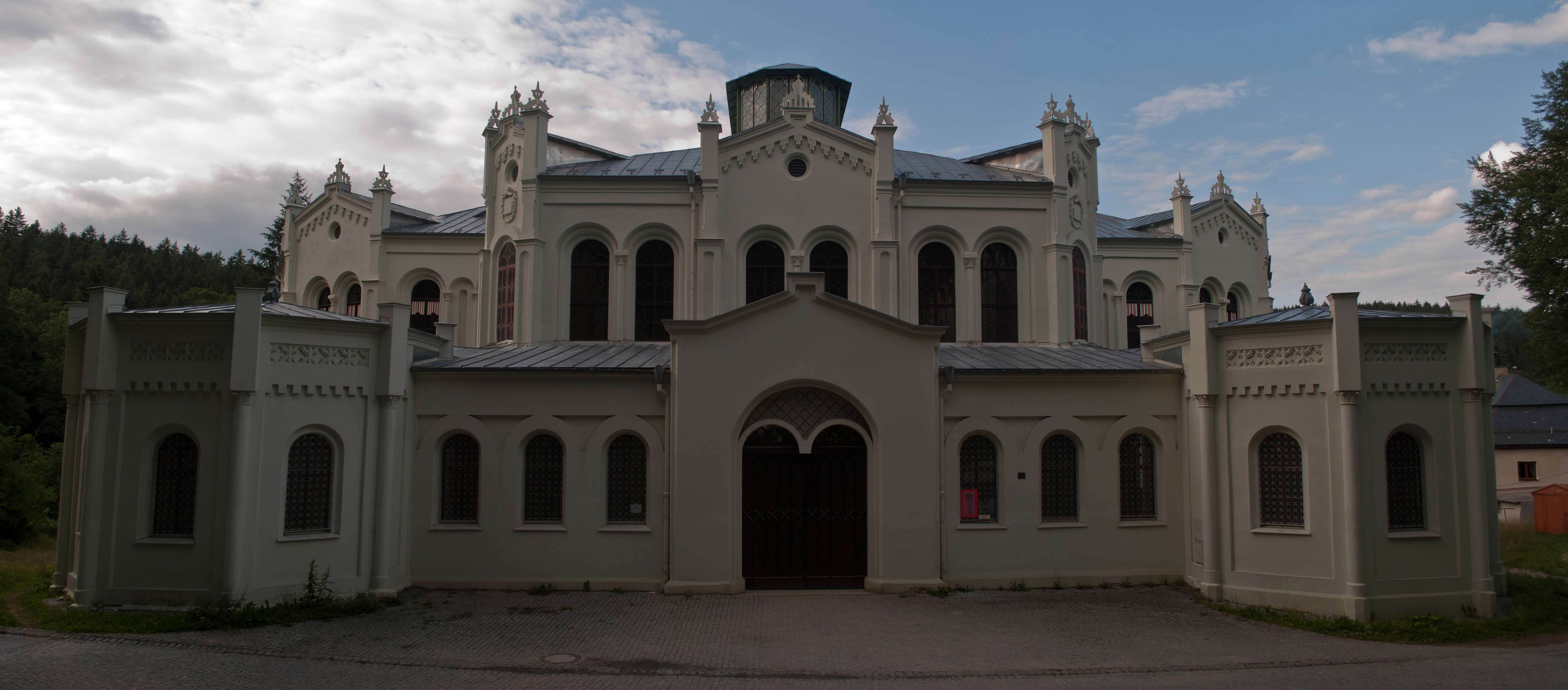 Riding stables in Světce